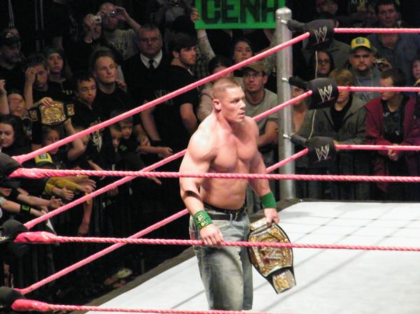 John Cena with the WWE Championship